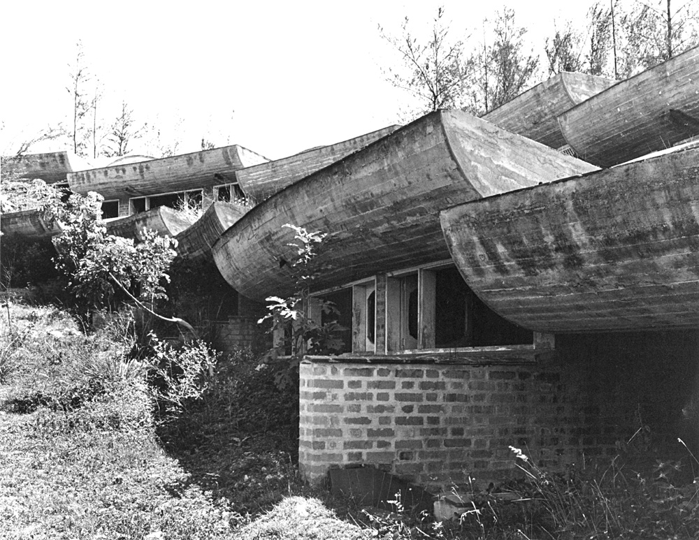 Vittorio Garatti, School of Music, Escuelas Nacional de Arte (1961-65)